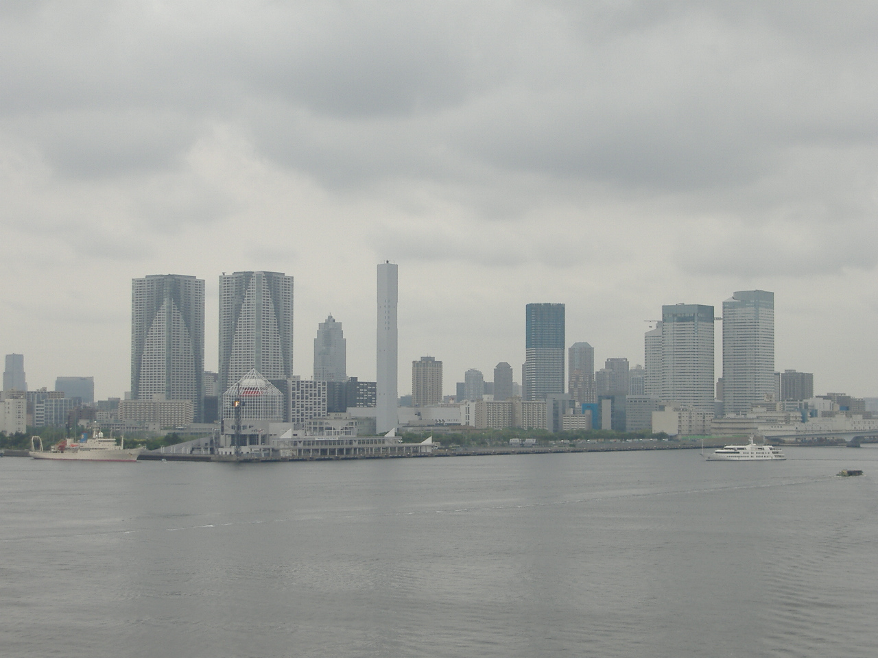 Harumi from Rainbow Bridge (Tokyo, Japan)